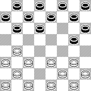 Opening "Igra Blindera" (Игра Блиндера) in russian checkers